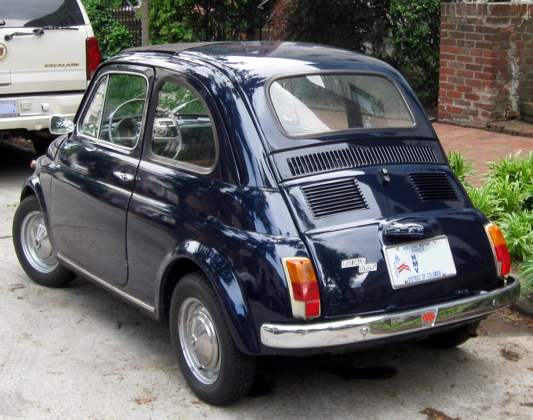 1971 Fiat 500 photographed in Washington, D.C., USA.